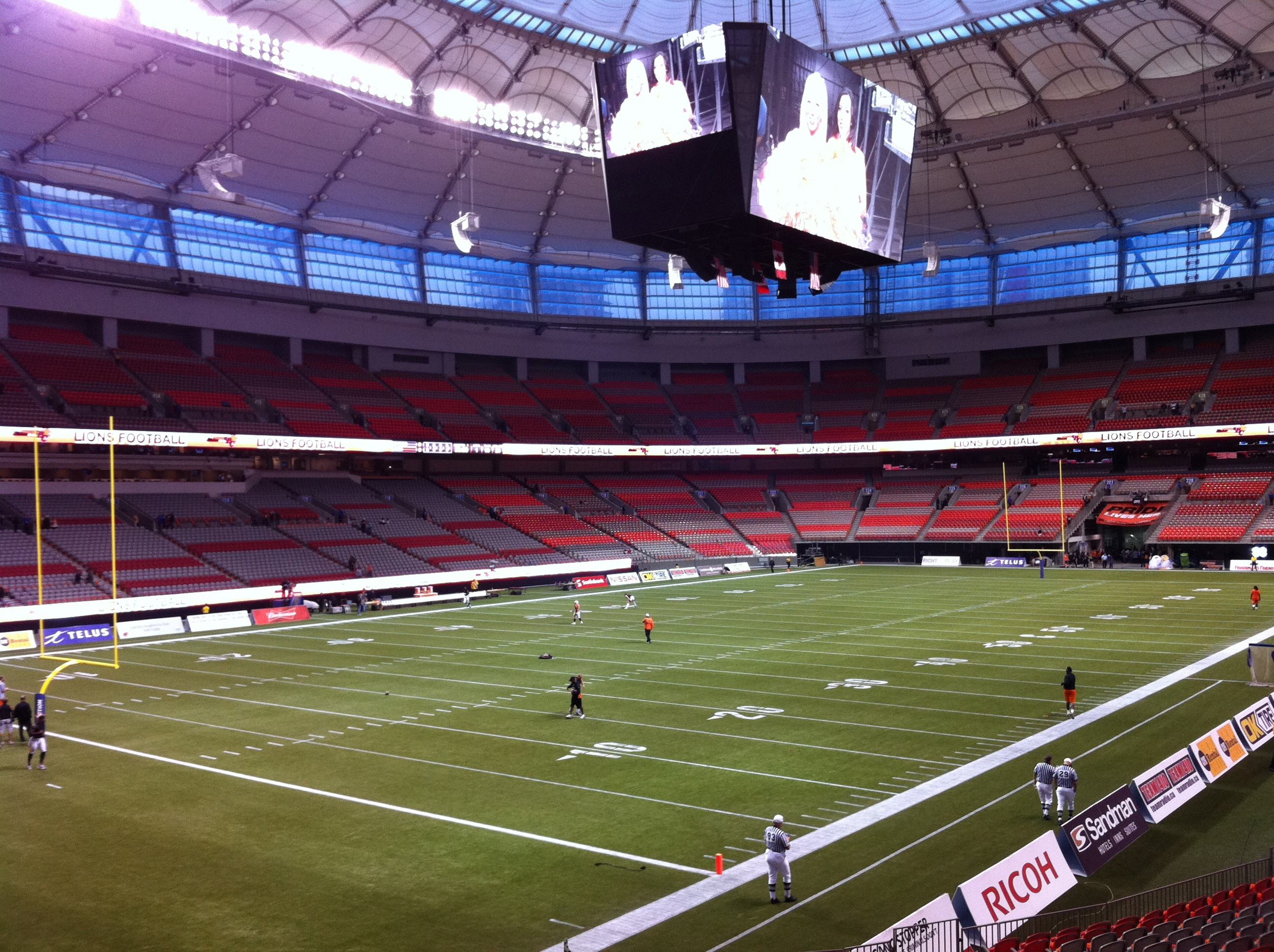 Home opener for the BC Lions at the newly renovated BC Place